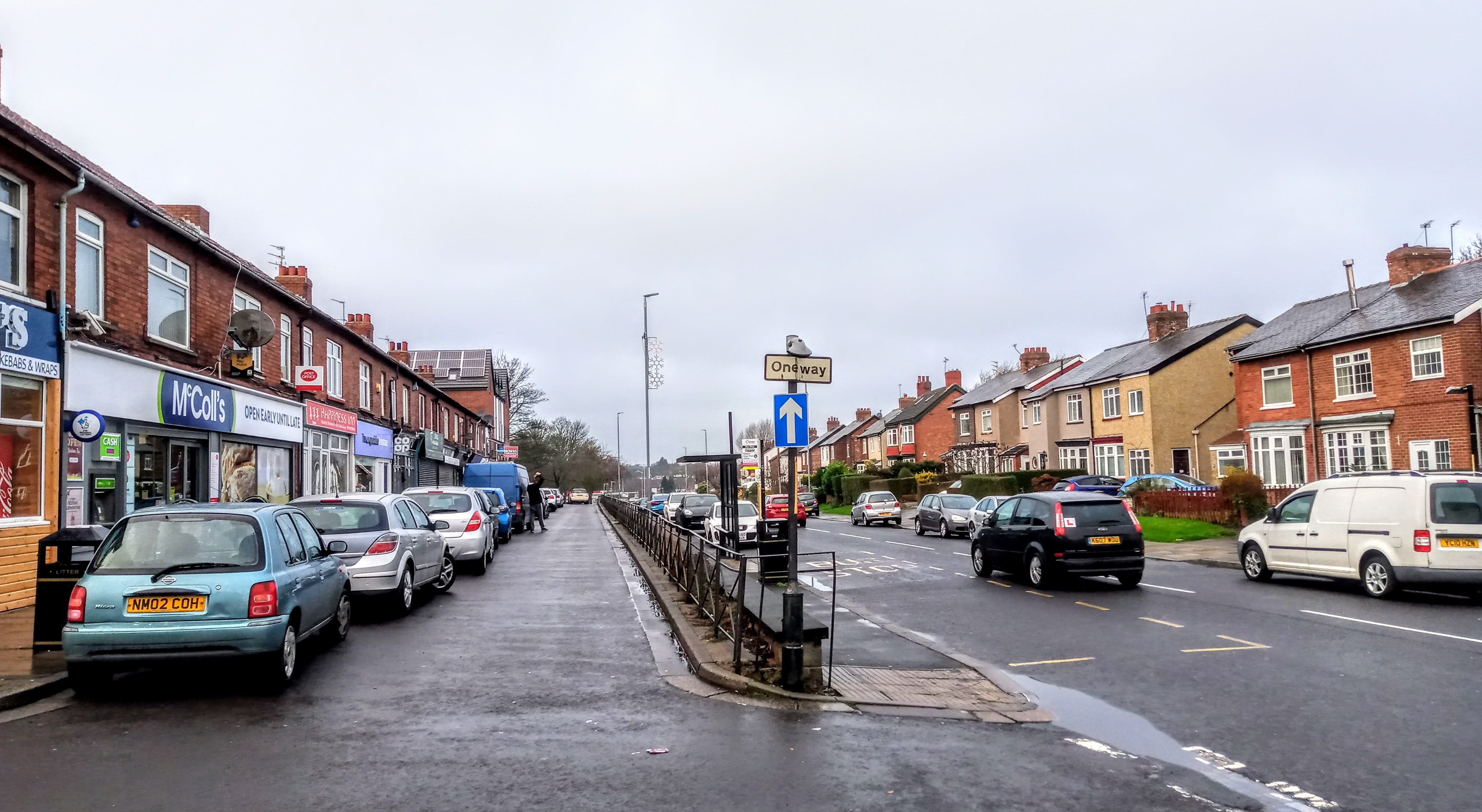 Billingham